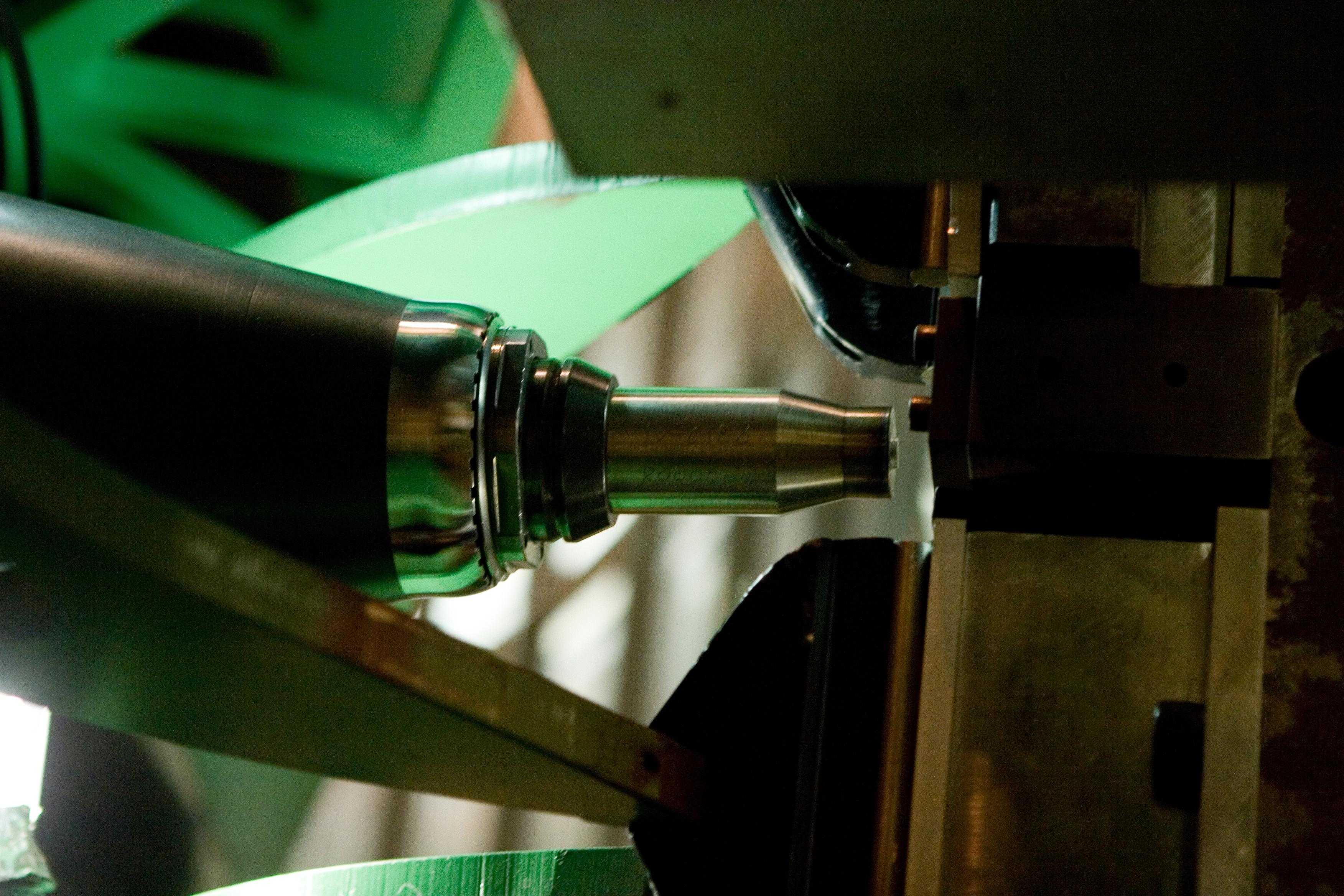 This close-up view of the friction stir weld tack tool used to manufacture of space shuttle external tanks shows the process of tack welding barrel panels together. Barrels were previously fabricated using traditional fusion welding, but friction stir welding is different in that the materials are not melted. A rotating tool pin uses friction and applied pressure to join the 20-foot longitudinal panels together. Friction stir welding is the most recent upgrade to the space shuttle's external tank, the largest element of the shuttle and the only element that is not reusable. The new welding technique utilizes frictional heating combined with forging pressure to produce high-strength bonds virtually free of defects. Friction stir welding transforms the metals from a solid state into a "plastic-like" state, and then mechanically stirs the materials together under pressure to form a welded joint. Invented and patented by The Welding Institute, a British research and technology organization, the process is applicable to aerospace, shipbuilding, aircraft and automotive industries. One of the key benefits of this new technology is that it allows welds to be made on aluminium alloys that cannot be readily fusion arc welded, the traditional method of welding.